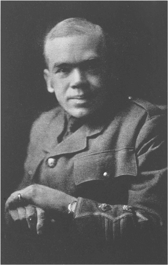 Portrait of Col. G.G. Nasmith C.M.G. Head of field laboratories (hygiene) with Canadian Expeditionary Force, World War I. Col. Nasmith confirmed that the gas during 2nd Battle of Ypres was chlorine, and suggested first primitive gas mask.